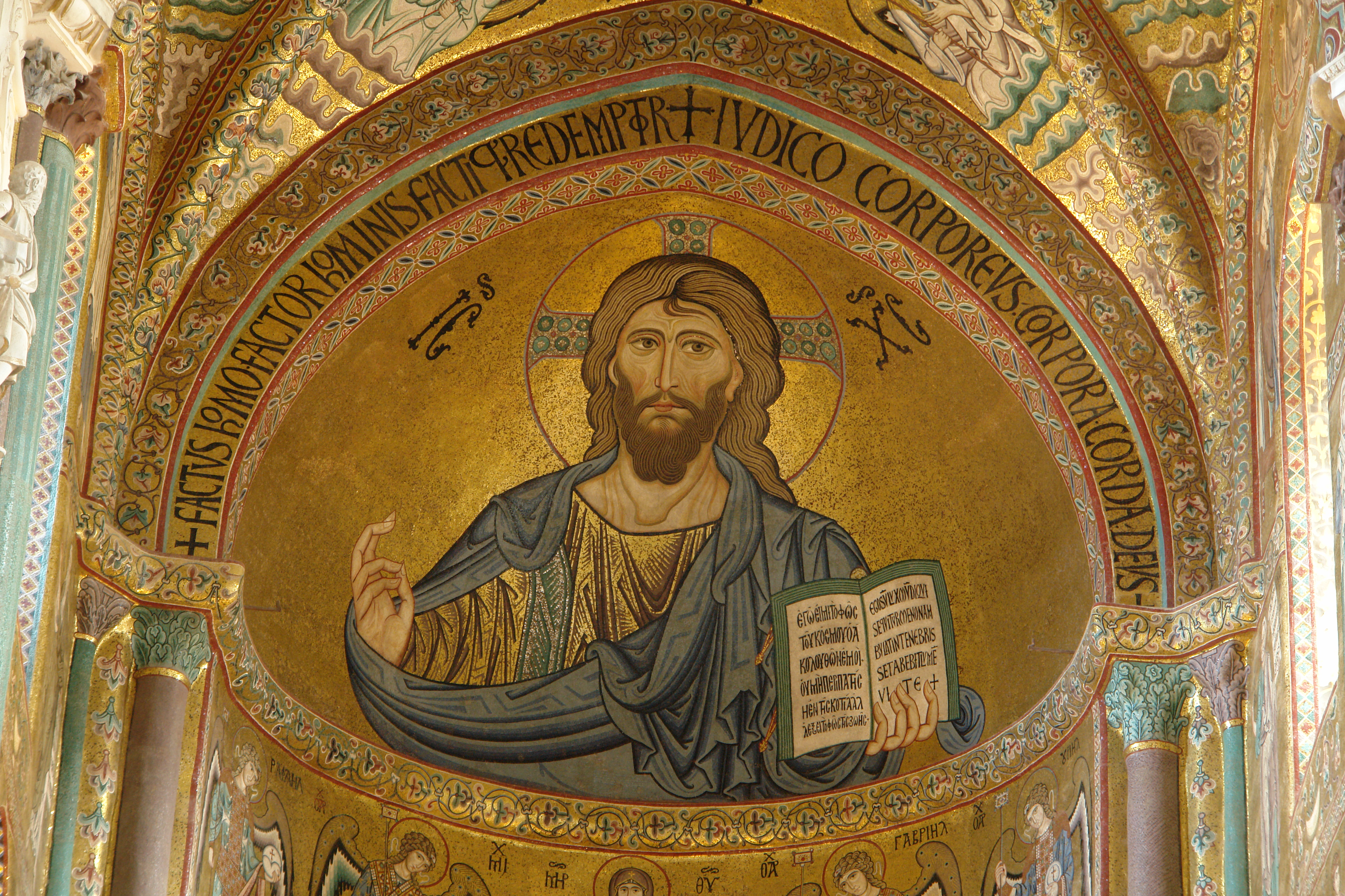 Christus Pantocrator in the apsis of the cathedral of Cefalù